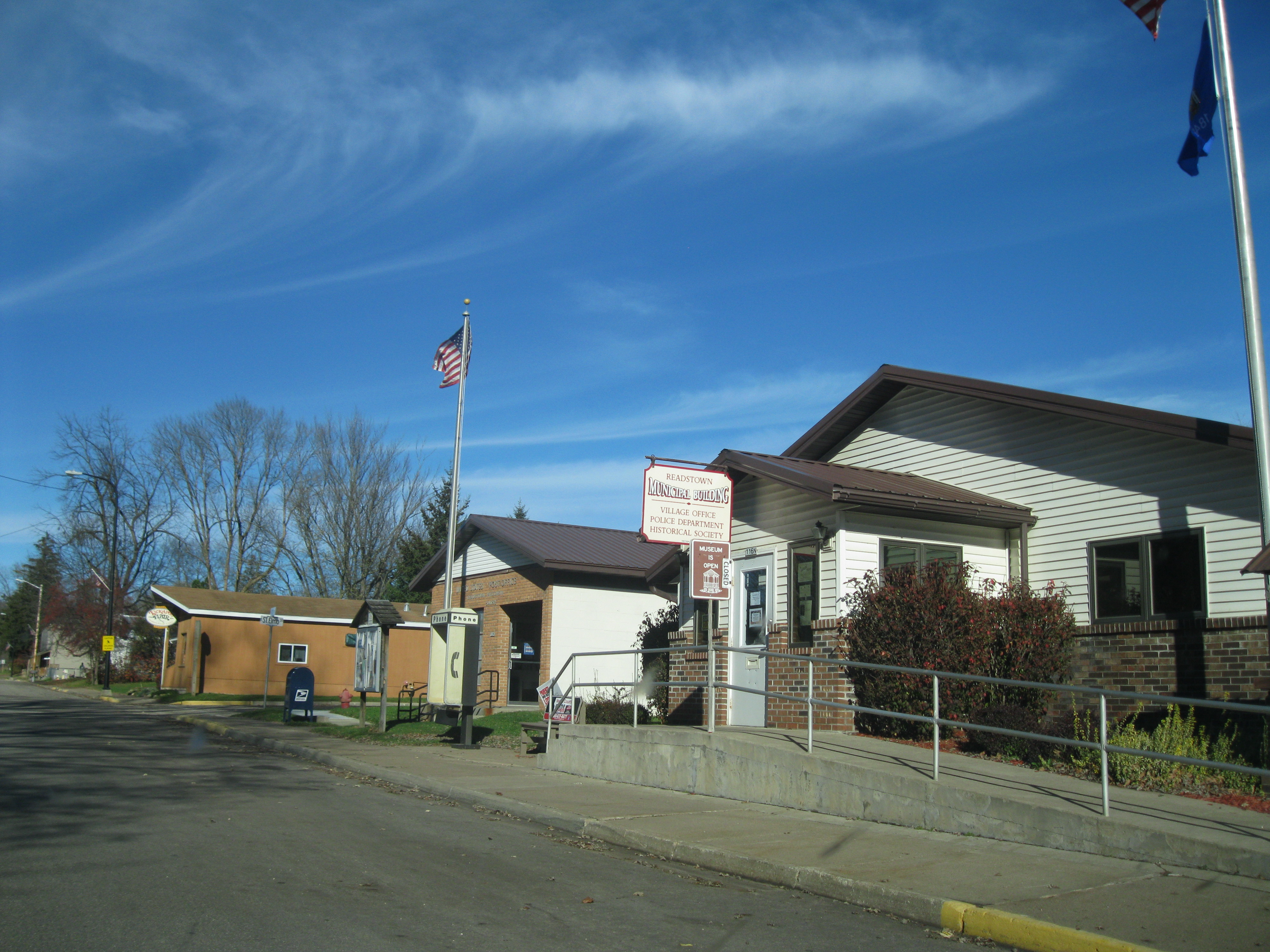 The municipal building and post office in Readstown, Wisconsin.